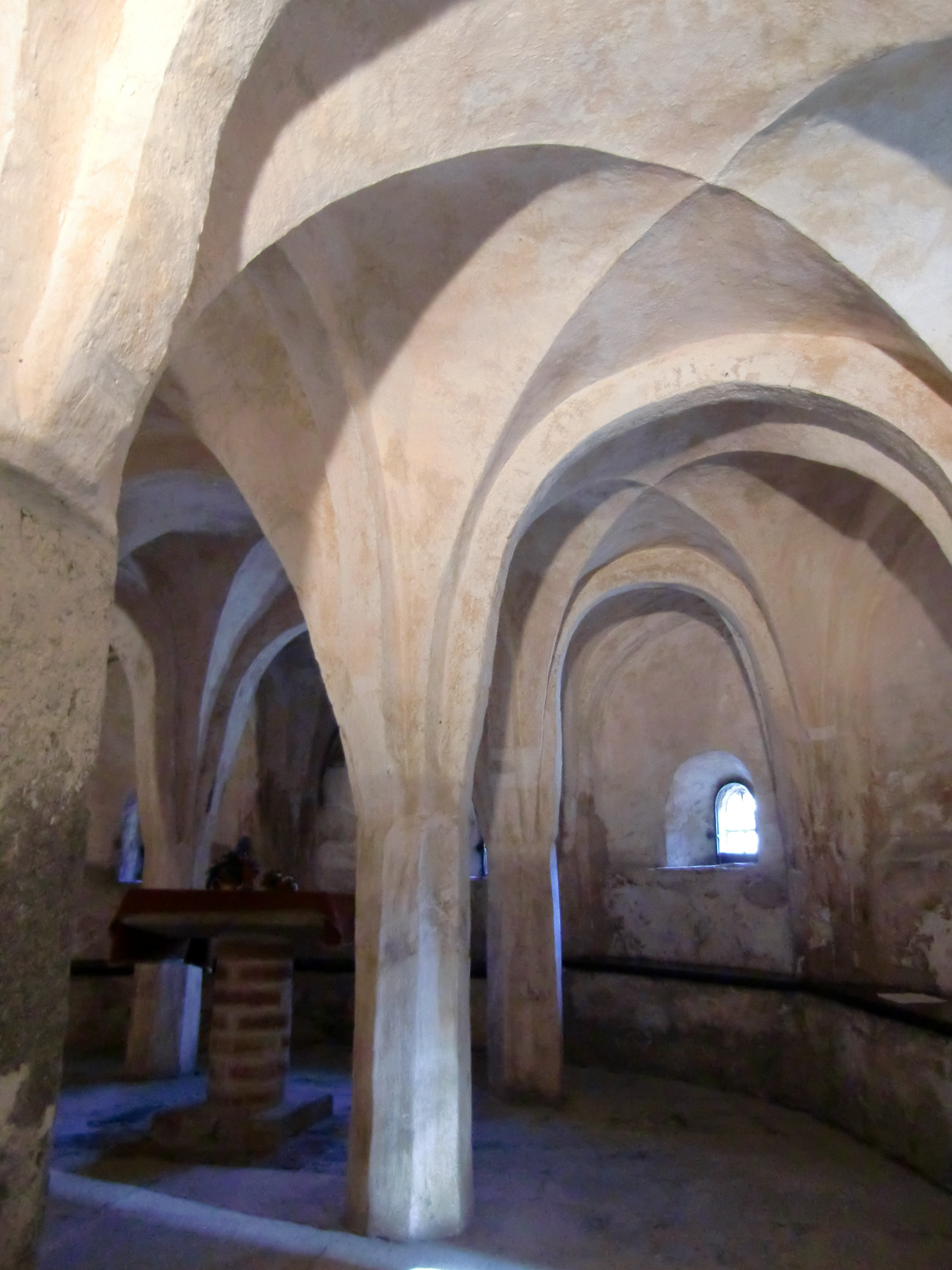 Oleggio, church of San Michele (XI century), the crypt